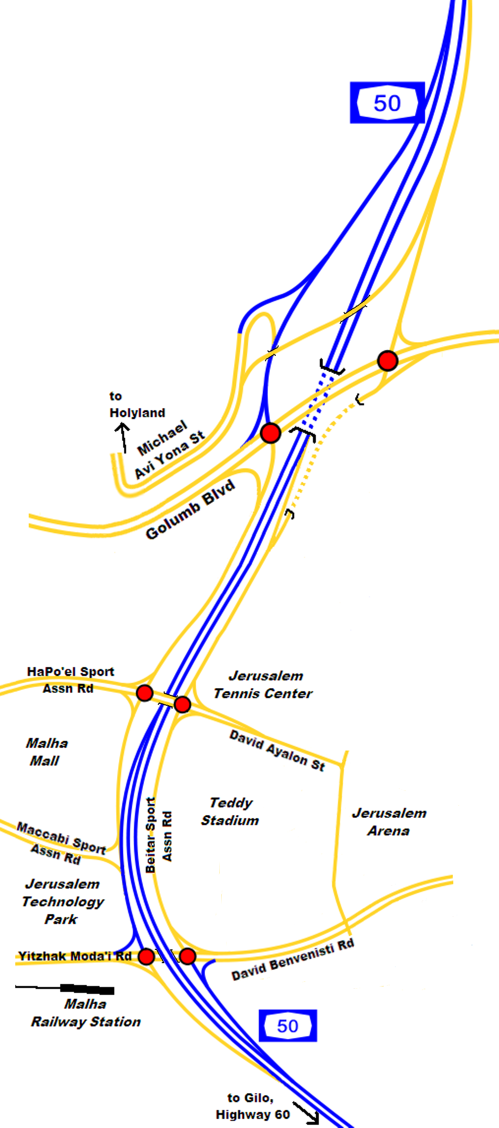 Junctions of Israel Highway 50 with Golumb Blvd. and local stteets surrounding Malha Mall, Teddy Stadium, Jerusalem Arena (u.c.), Jerusalem Technology Park and Malha Train Station.